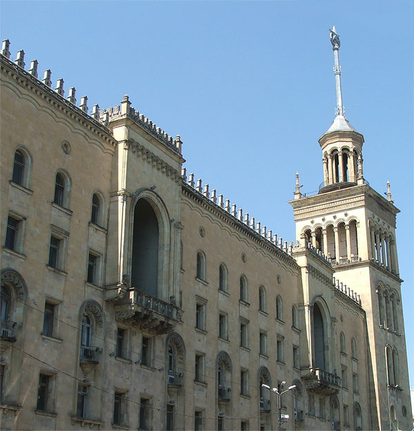 The Georgian National Academy of Sciences